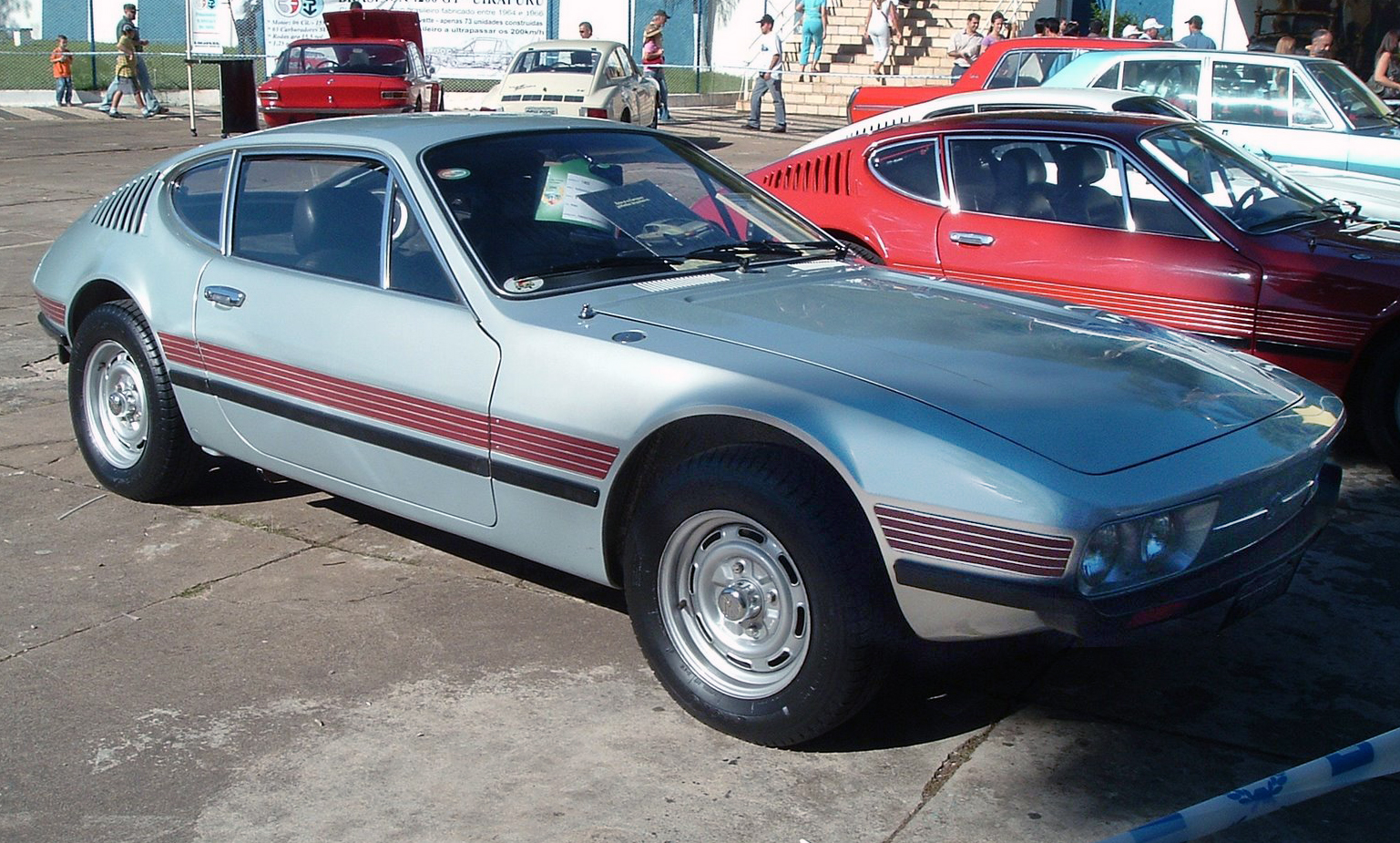 Volkswagen SP2, in the background can be glimpsed a rare Brasinca Uirapuru 4200GT and a Volkswagen Karmann Ghia TC